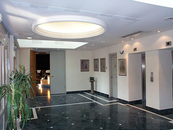 Interior view, image from the Museum of Ancient, Byzantine, and Postbyzantine Musical Instruments, Thessaloniki, Central Macedonia, Greece